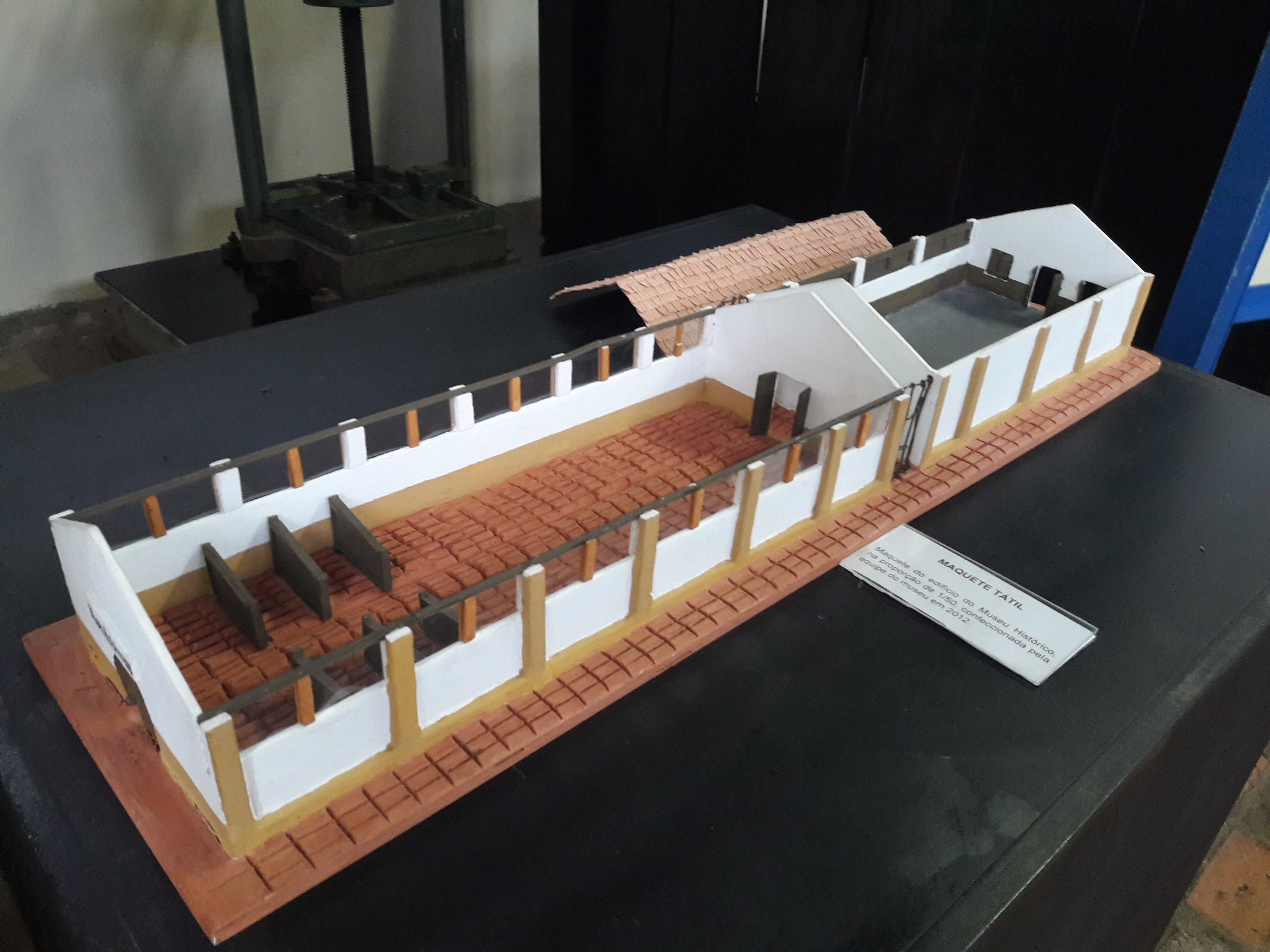 Maquete exposta da estrutura do museu.